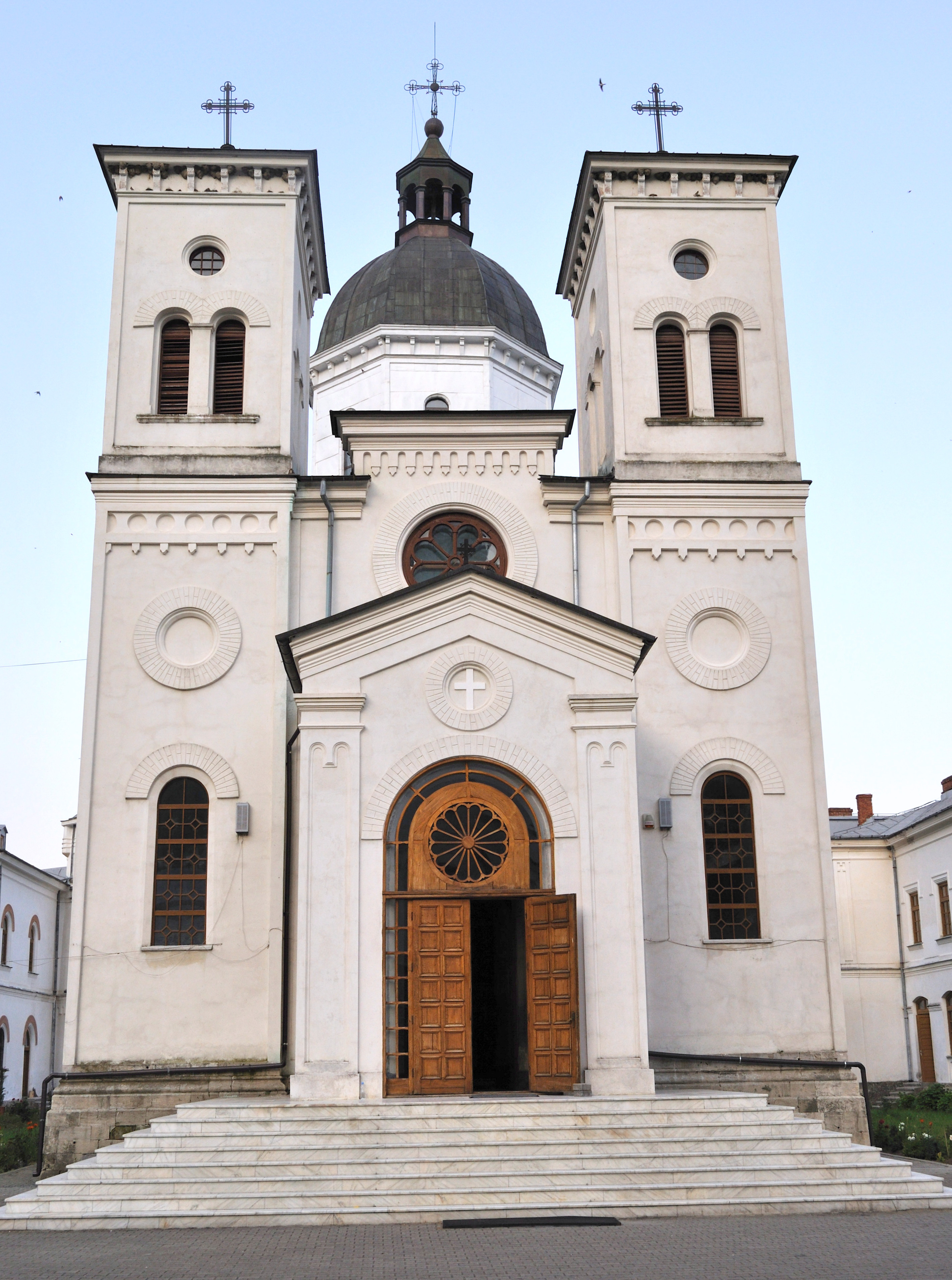 Bistrița monastery, Costești, Vâlcea countyRomână: Biserica "Adormirea Maicii Domnului", Mănăstirea Bistrița (1847-1856), comuna Costești, județul Vâlcea